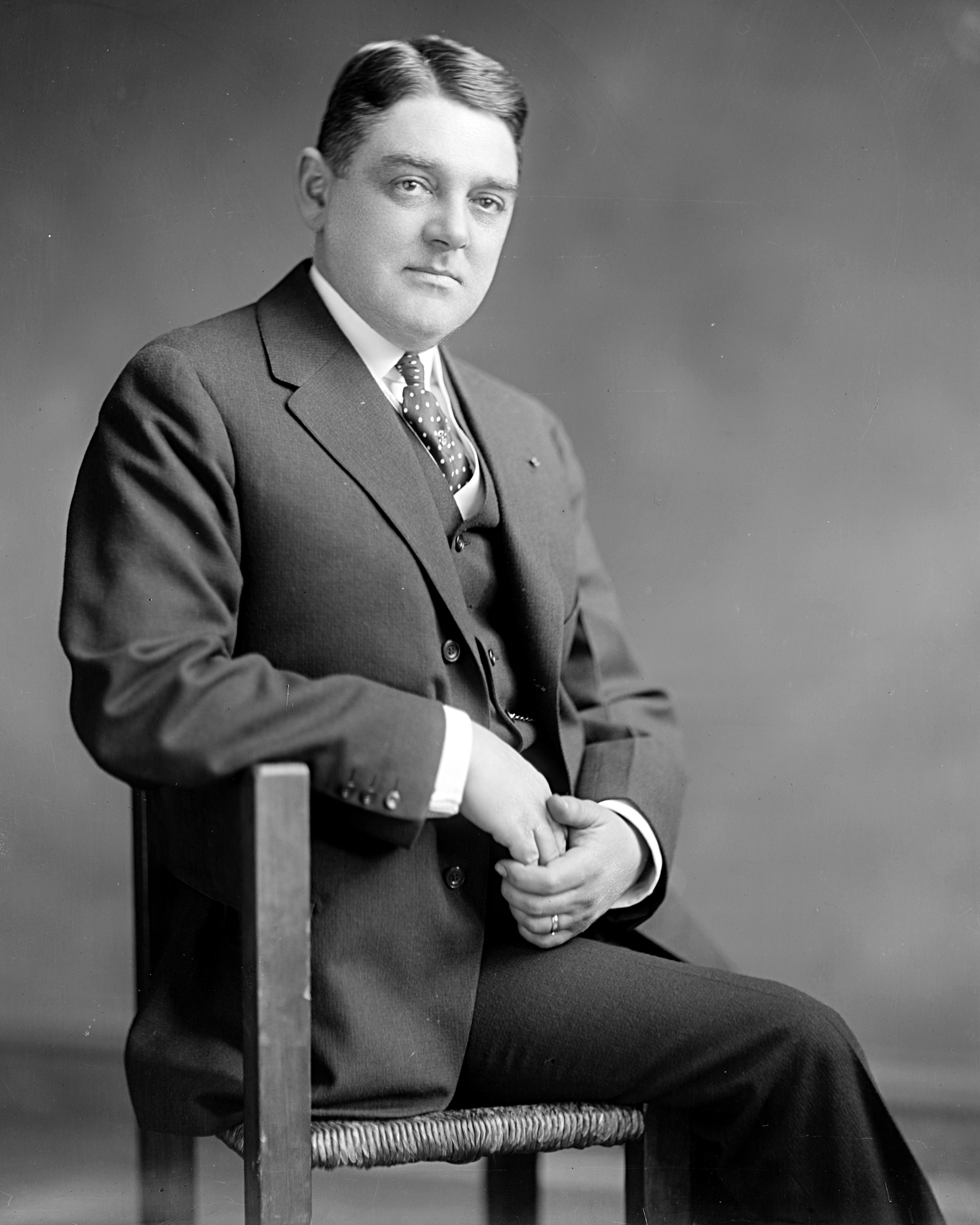 Robert Douglas Heaton, US Representative from Pennsylvania